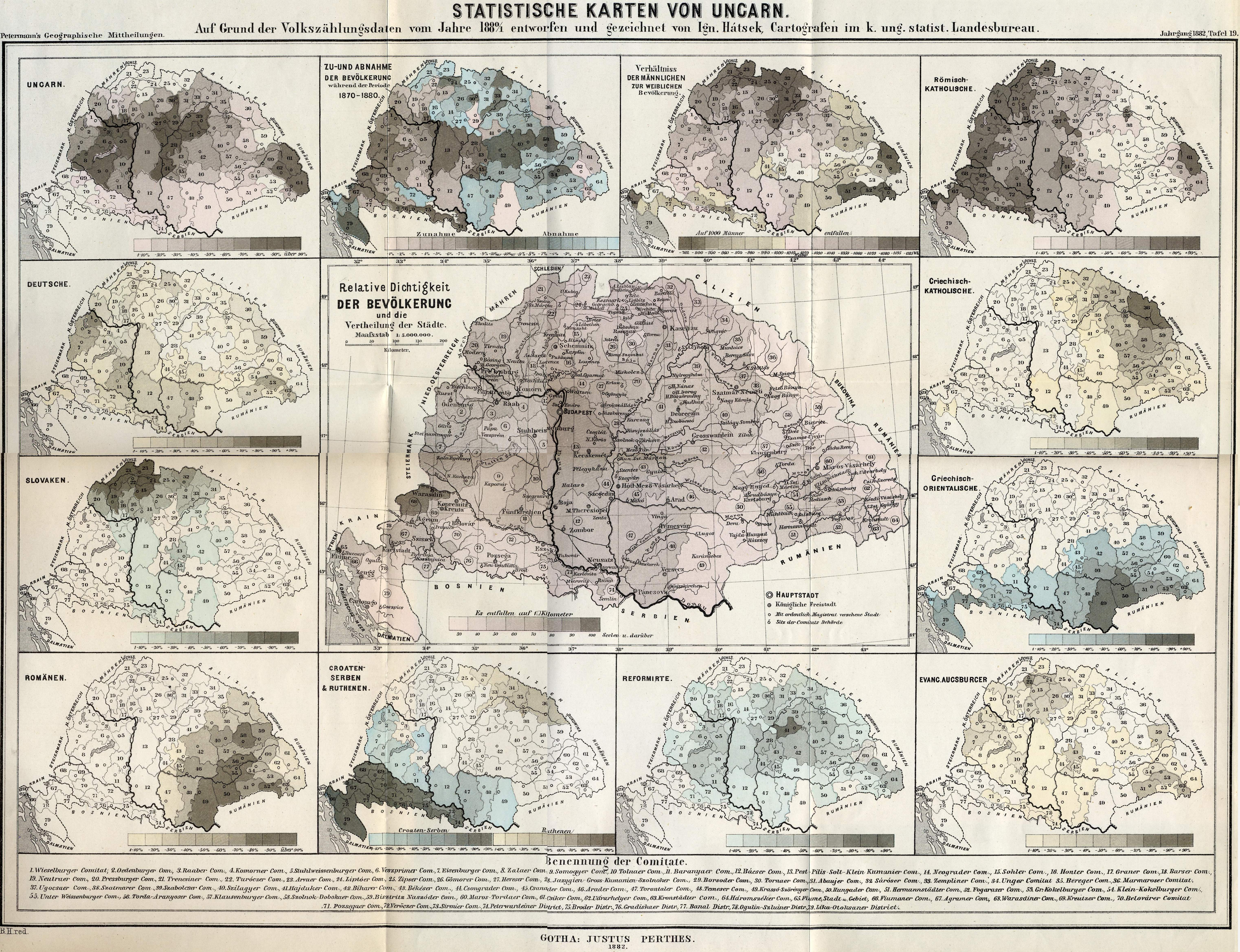 Hungary's population in 1880 (census results)